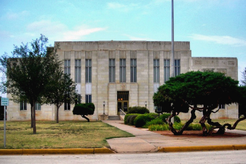 The Knox County Courthouse in Benjamin, Texas.